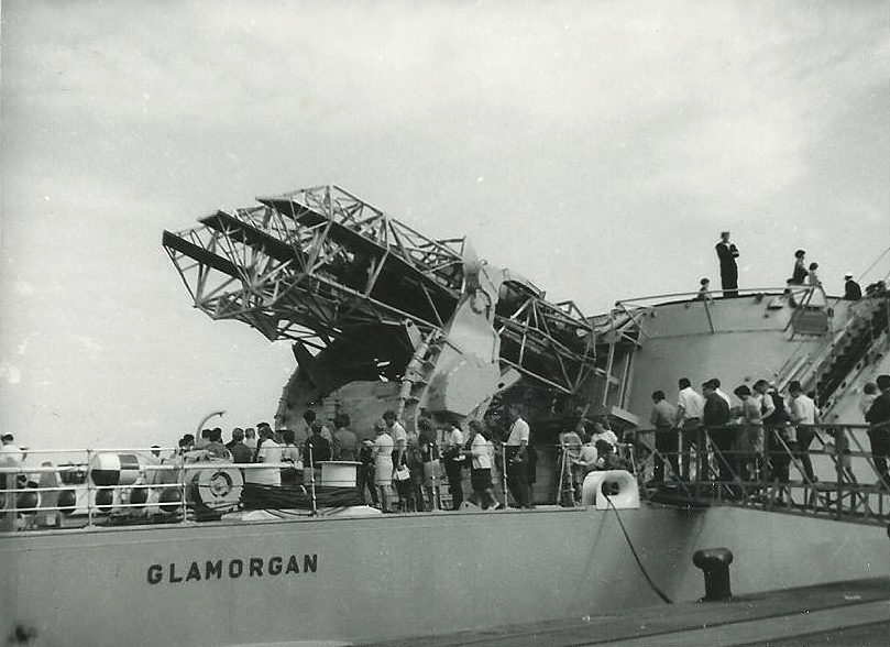 Seaslug GWS2 SAM launcher of "County" Class (Batch 2) Destroyer "HMS Glamorgan", 6,200 tons, launched 1964, commissioned 1966 at Swansea Docks, c.1972. Scanned photograph taken with a Kowa SET.